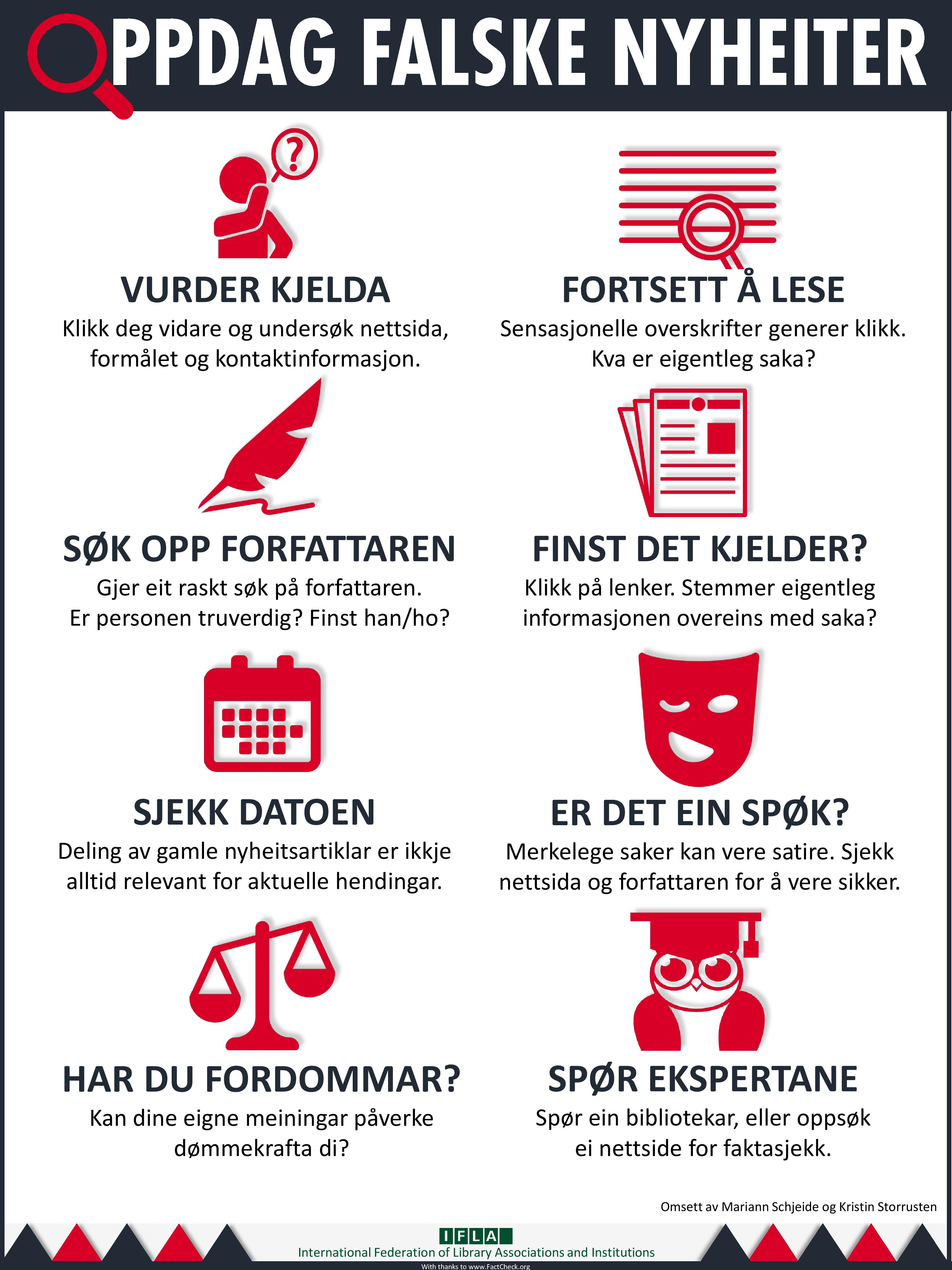 Norwegian (nynorsk) translation of IFLA infographic "How to Spot Fake News" in JPG format.